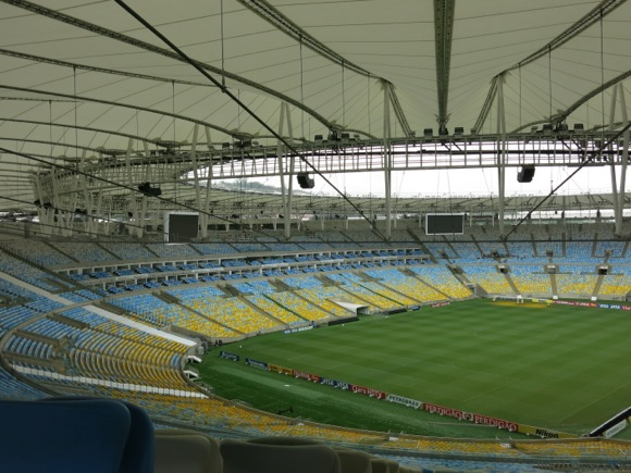 Maracana Stadium in Rio de Janeiro, Brazil